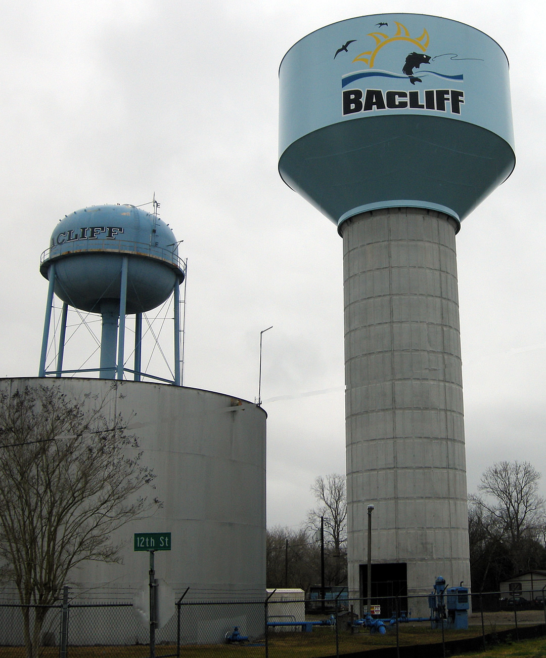 New Water Tower, constructed by Bacliff MUD. The old water tower is seen to the left in the photo. The new tower has a capacity of 750,000 gallons and will provide enhanced water capacity for the growing Bacliff community. Photo taken Feb-2015.